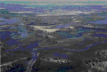 Islands and permanent swamps in the Okavango Delta self made